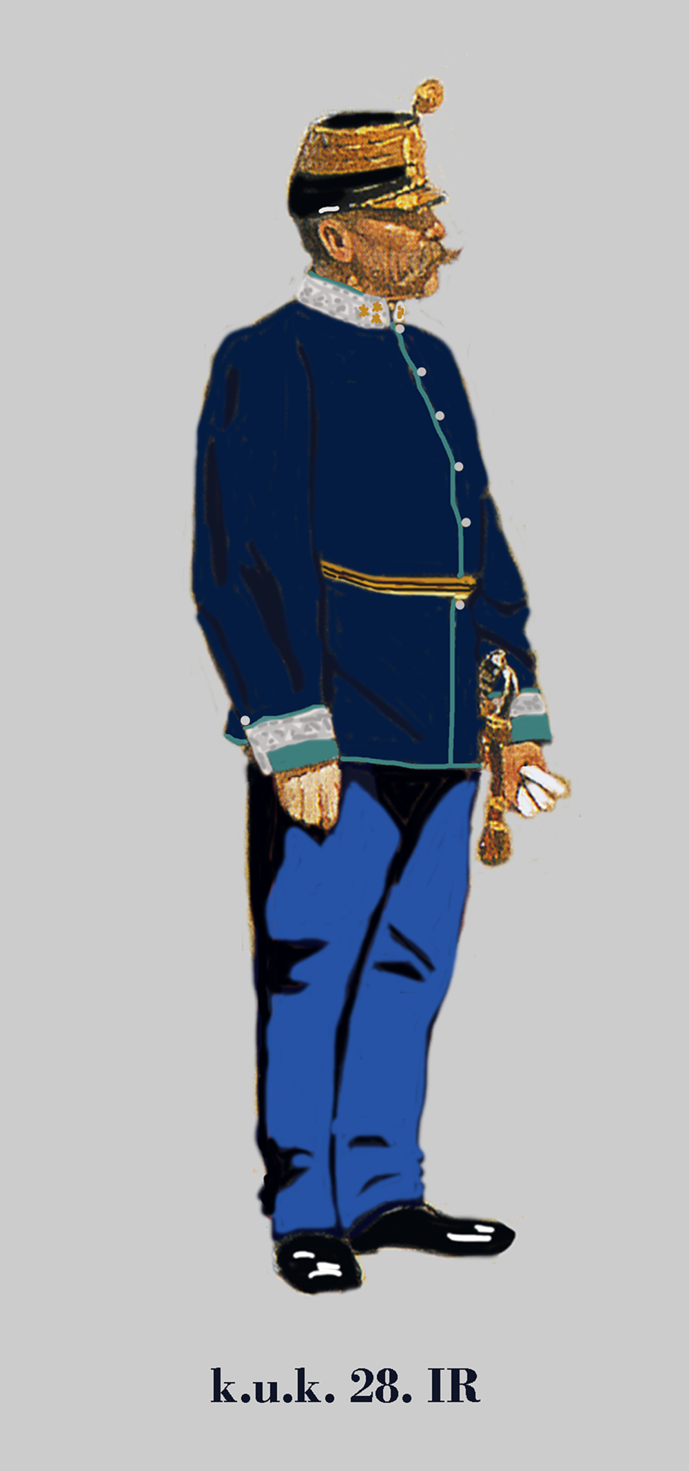 Colonel of the Austria-Hungarian (k.u.k.). 28th german Infantry Regiment in Parade dress. 1914